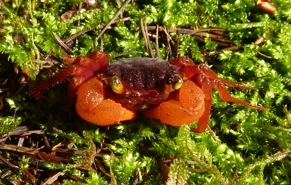 Geosesarma notophorum from a vivarium import.